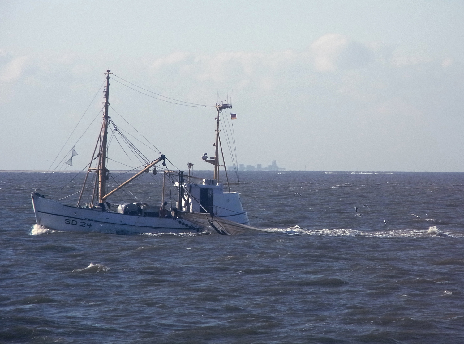 Lesser Black-backed Gulls and Black-headed Gulls following a trawler near Trischen in the German Wadden Sea